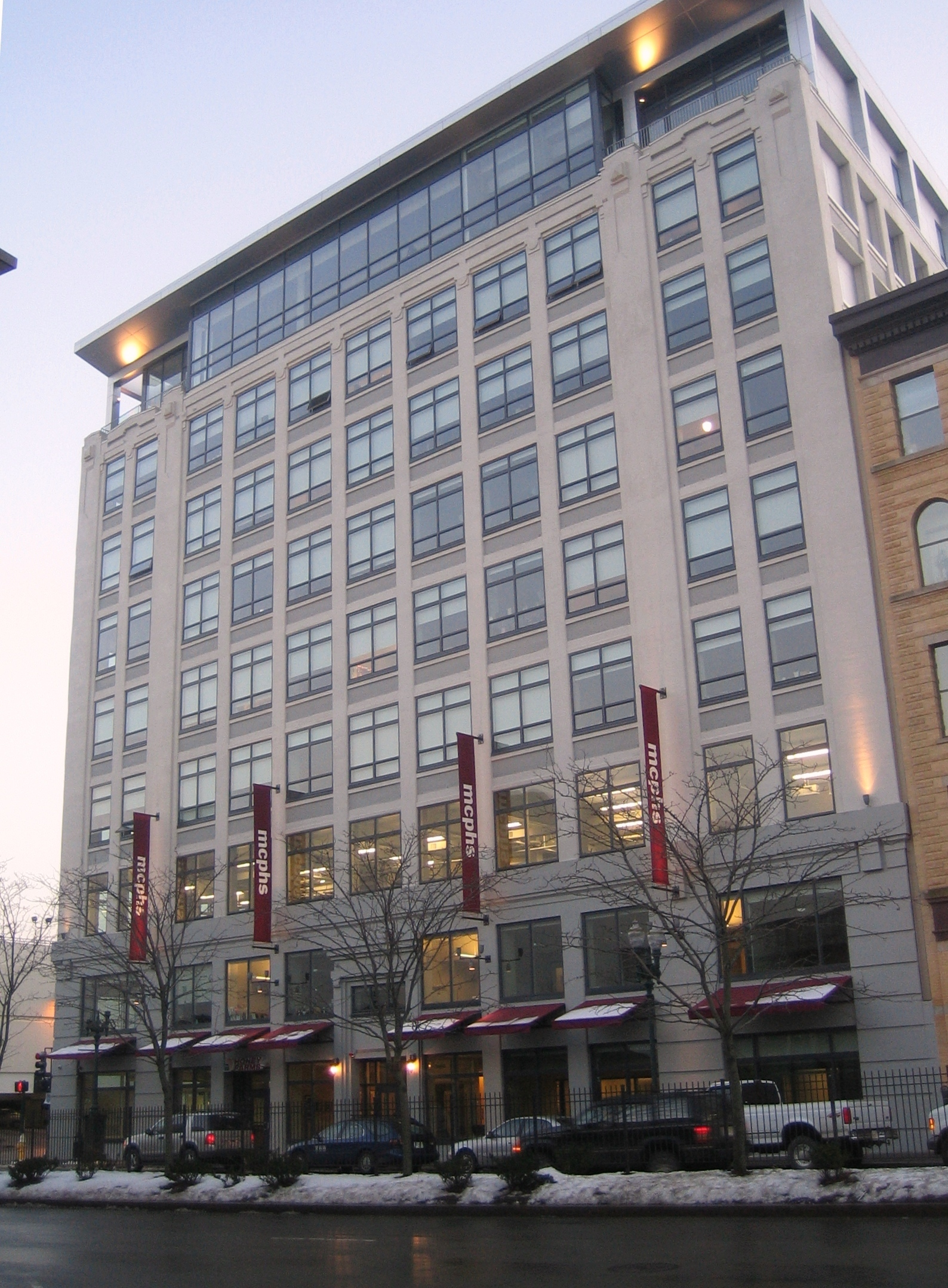 Living Learning Center of Massachusetts College of Pharmacy and Health Sciences.